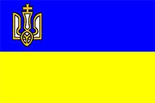 Naval Ensign of Ukrainian People's Republic, 14 (27) January 1918).